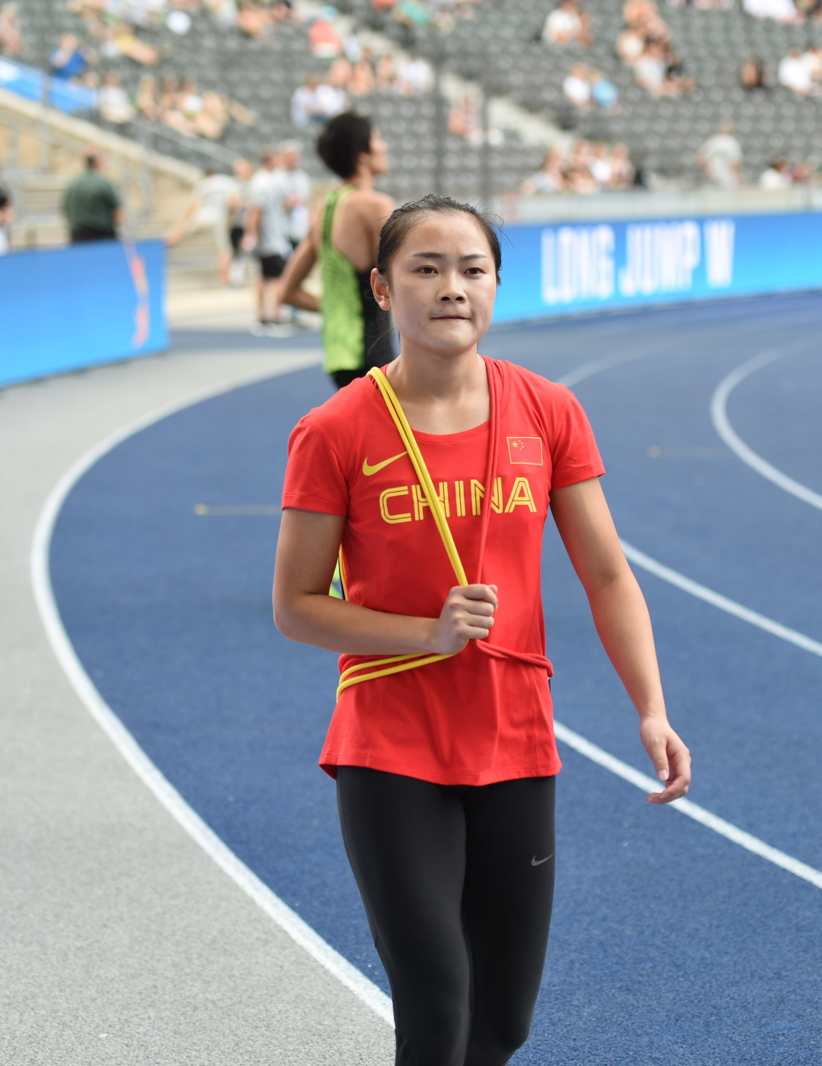 100 m women (final) at the ISTAF 2019 on 1 September 2019 in Berlin, Germany.